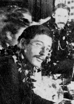 Photograph of Lloyd Osbourne (with Robert Louis Stevenson in b.g.) attending Royal Luau thrown by King Kalakaua. This photograph was taken at the Henry Poor residence in Waikiki.